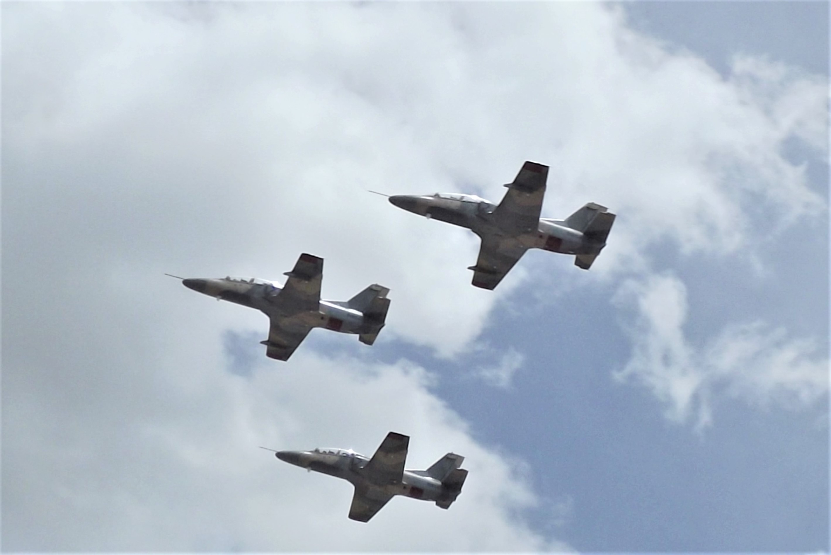 Flight in formation of three Hongdu K-8VV Karakorum of the Bolivarian Military Aviation